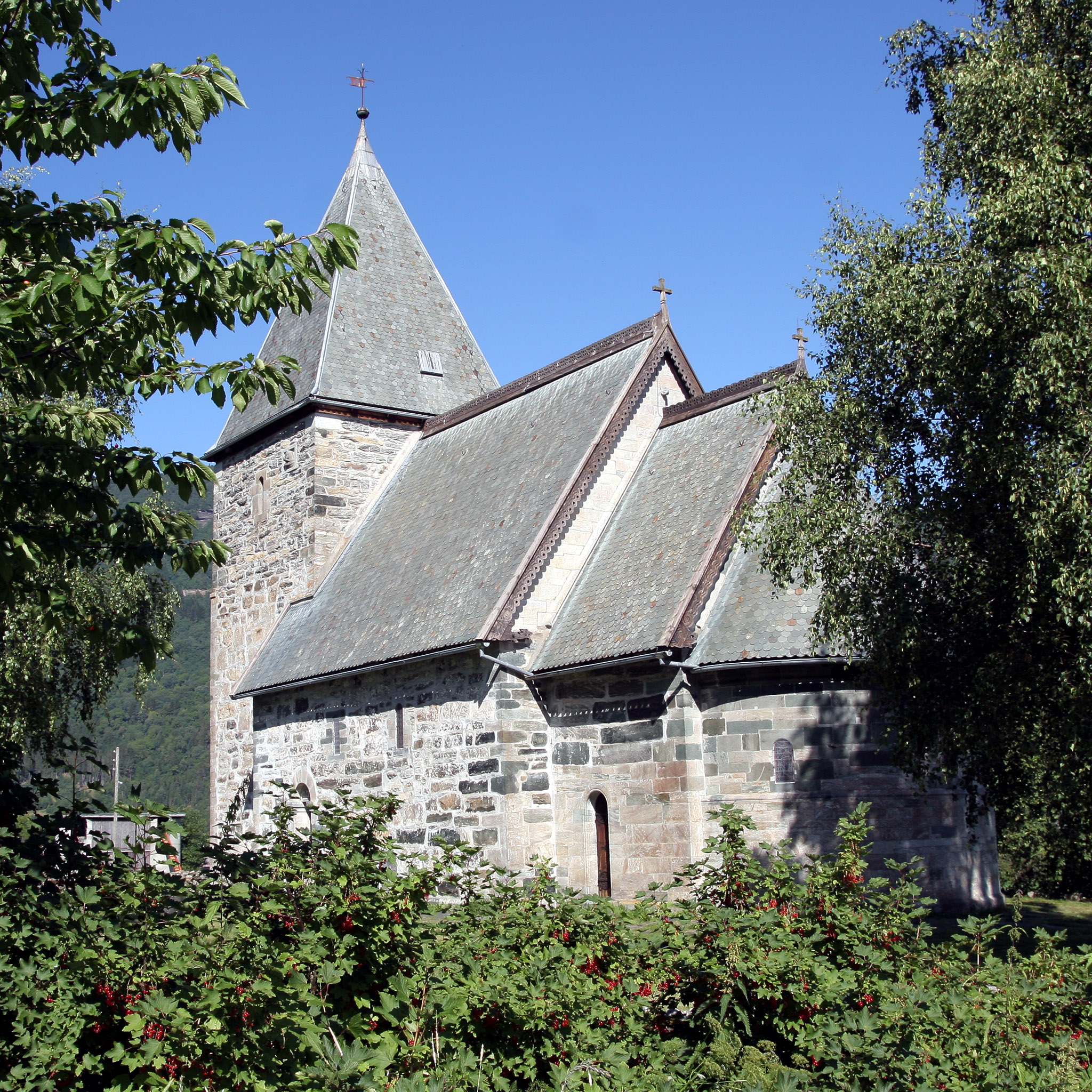 The Hove church in Vik (Norway)